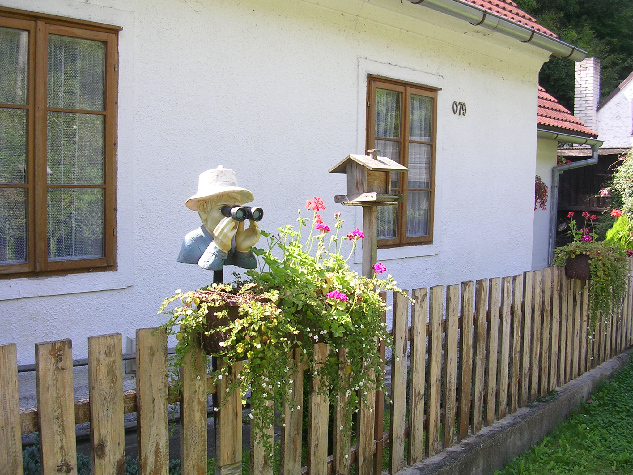 Branov-Luh, Rakovník District, Central Bohemian Region, the Czech Republic.